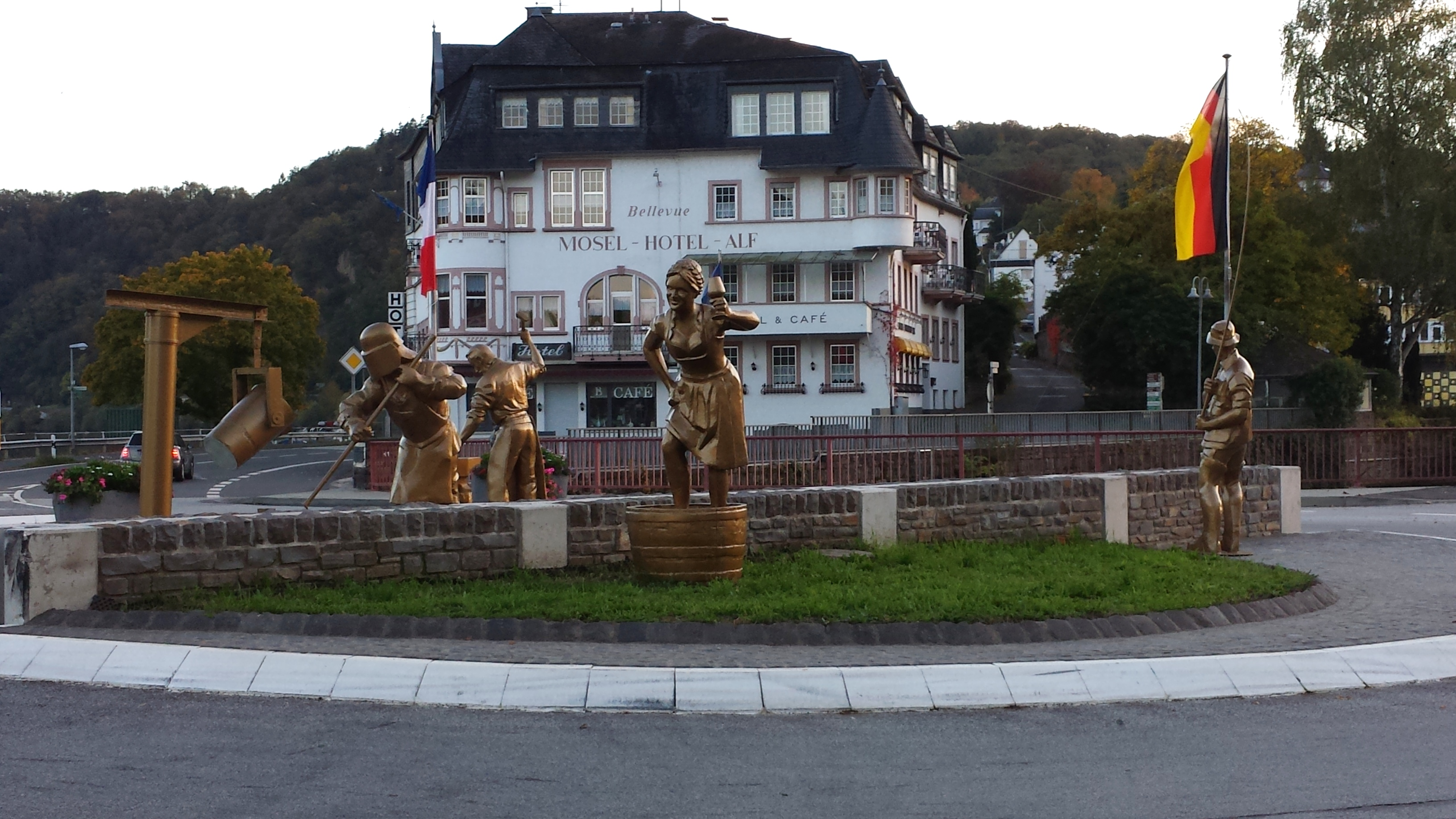 Alf roundabout with sculptures of the artist Turgut Gül